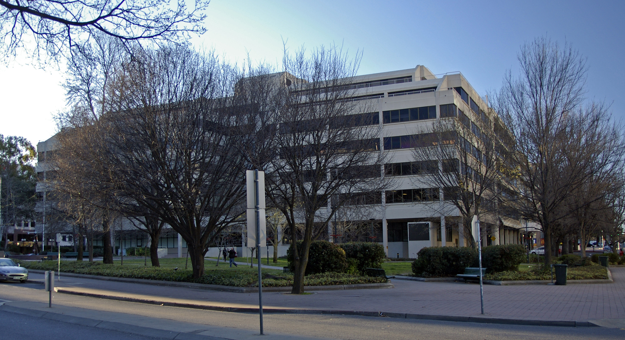 Australian Federal Police Headquarters in Canberra City, Australian Capital Territory.